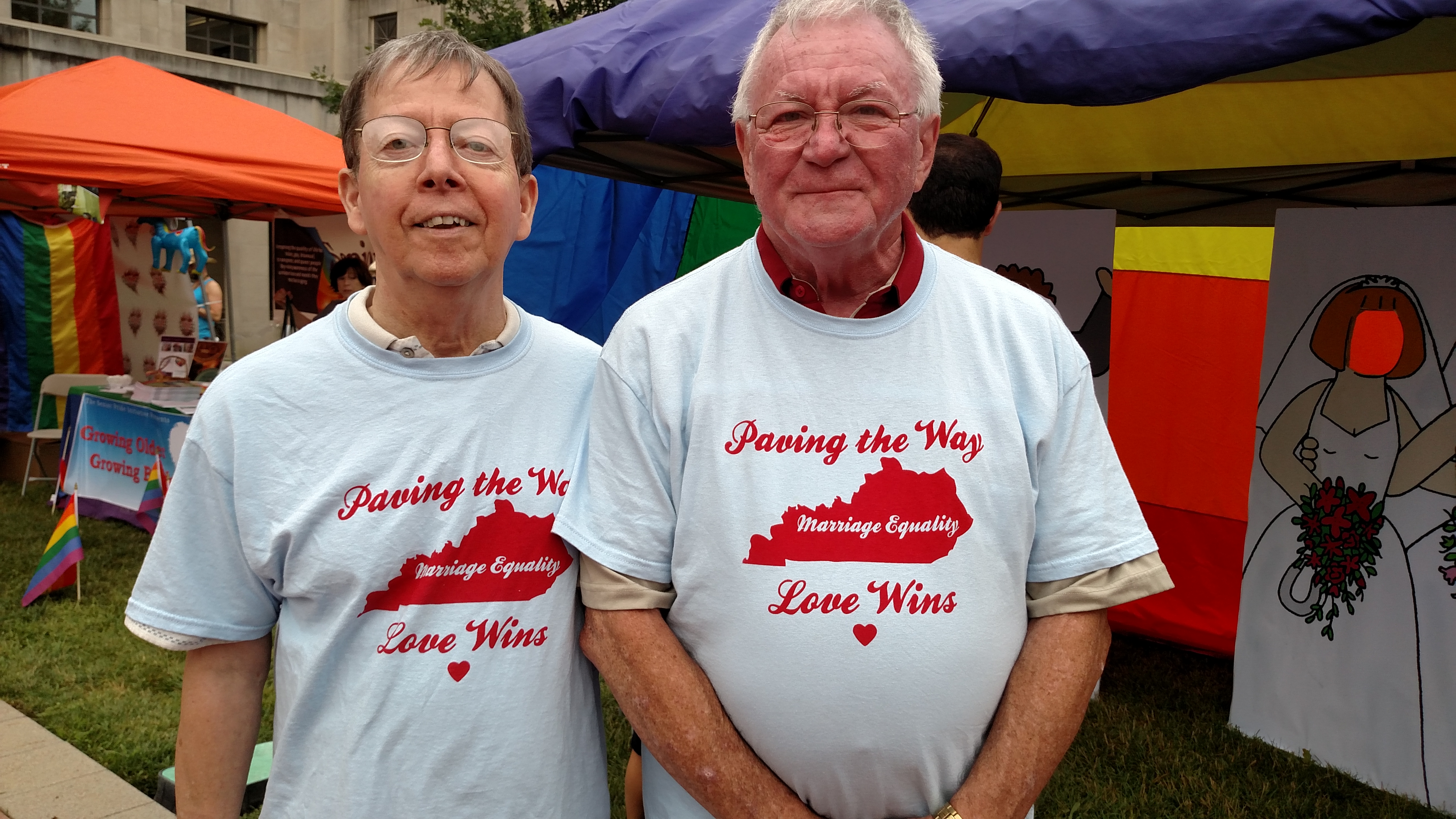 Jimmy Meade and Luke Barlowe at Lexington Pride Festival 2015. Jimmy Meade and Luke Barlowe are one of the married couple from Kentucky who were plaintiffs in the consolidated U.S. Supreme Court case that legalized same sex marriages in the United States.